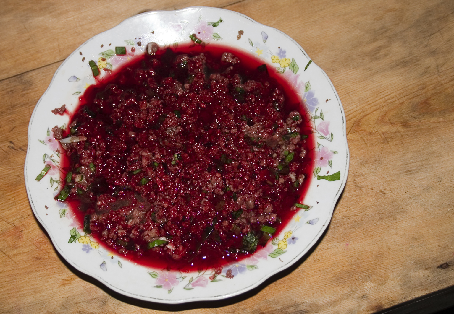 Dish made from raw blood of ducks or geese.